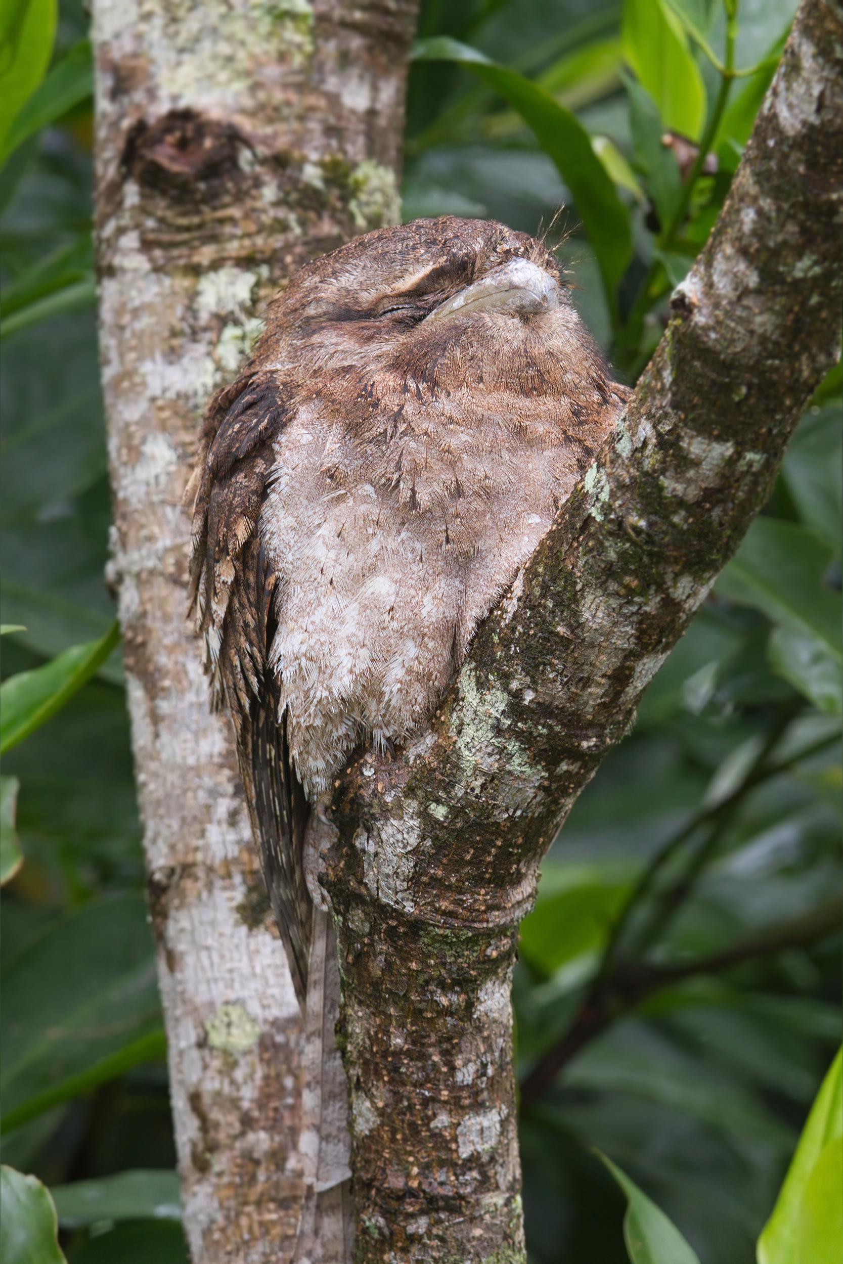 Papuan Frogmouth (Podargus papuensis), Daintree River, Queensland, Australia